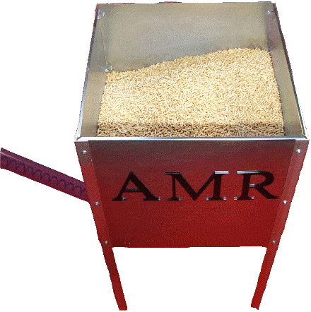 Pellet - day container